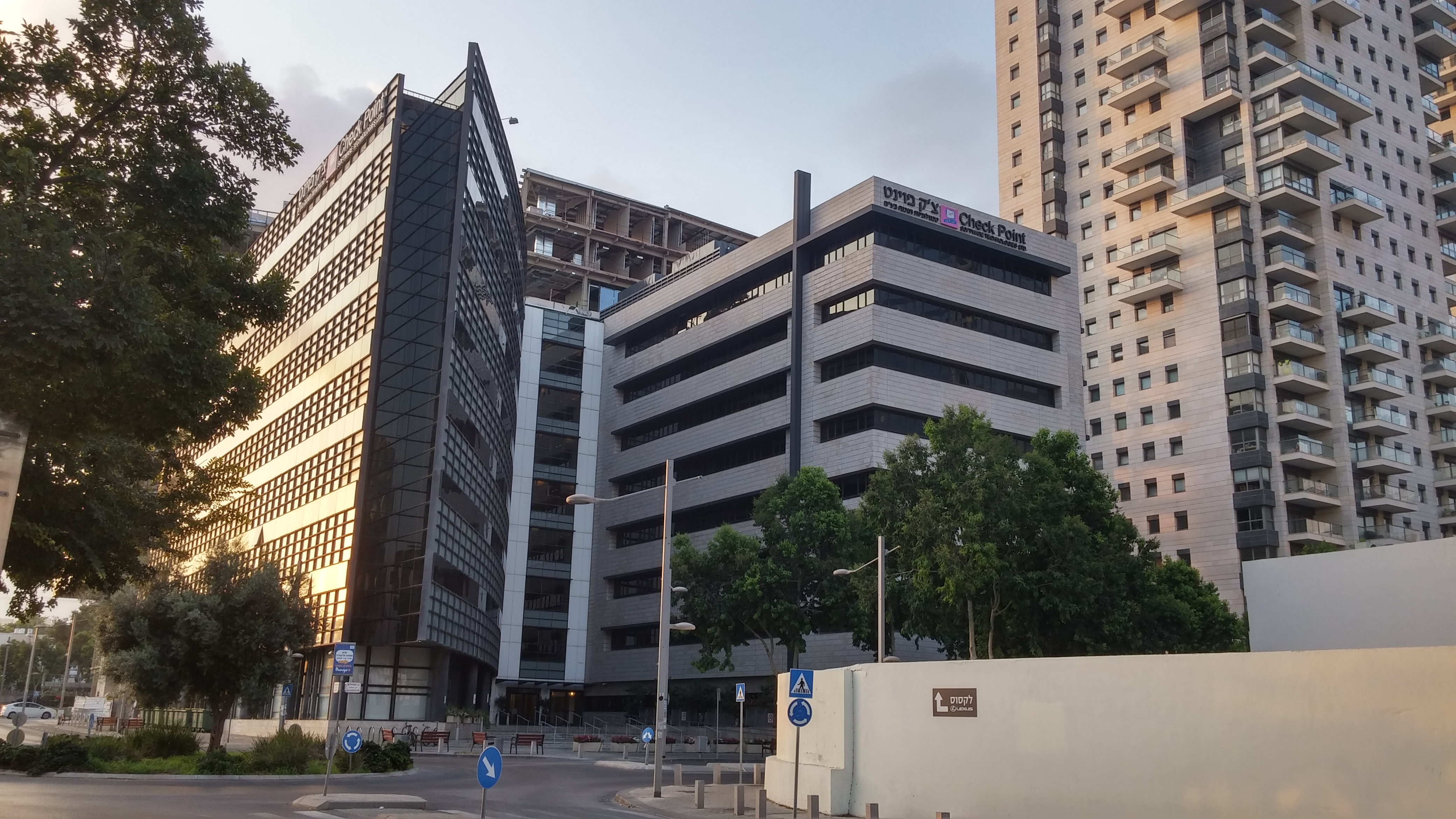 Check Point headquarters, Tel Aviv